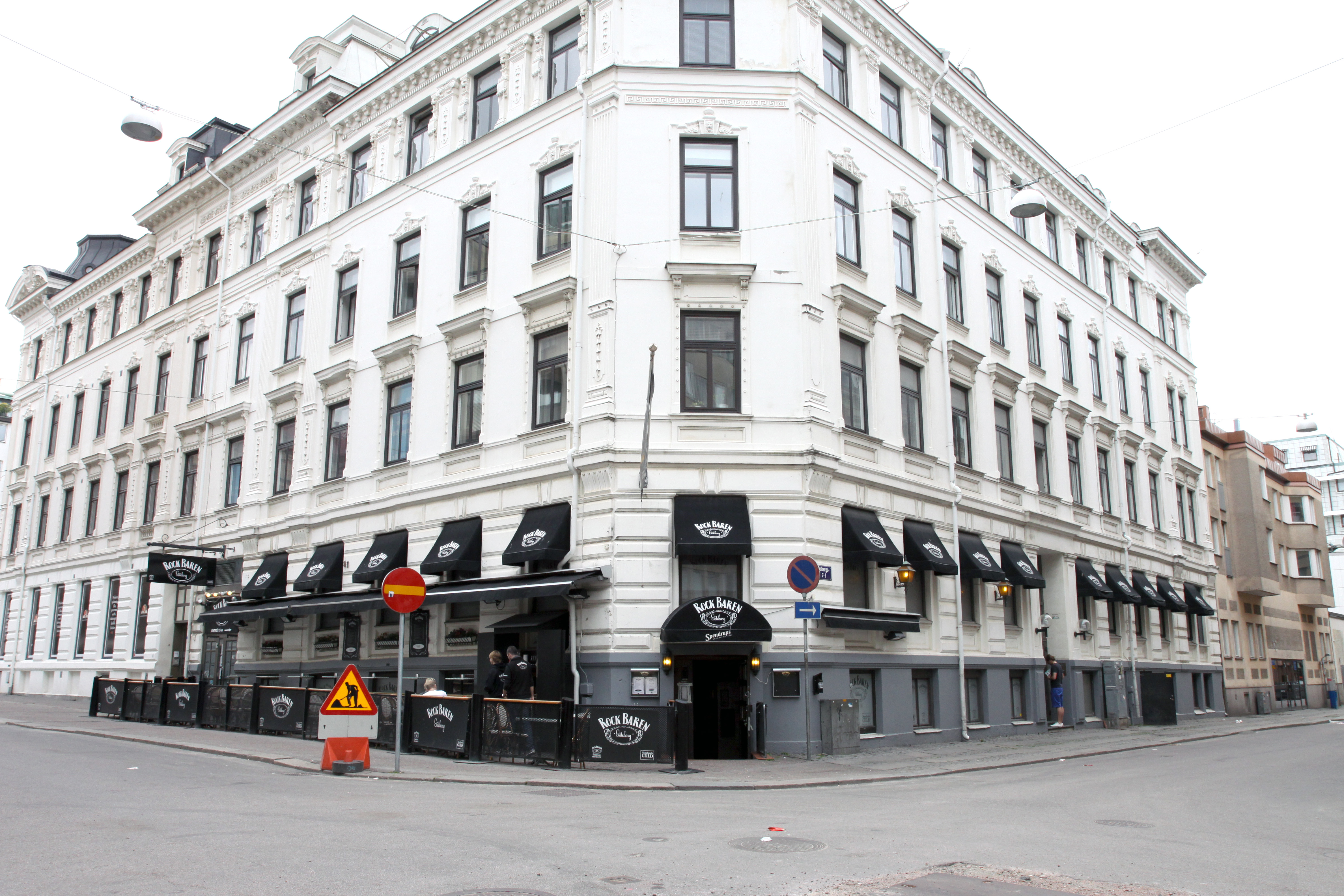 The club and bar Rockbaren in Gothenburg, Sweden